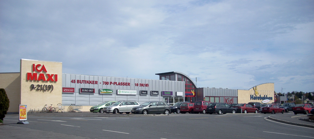 Harebakken shopping center at Harebakken, Arendal, Norway